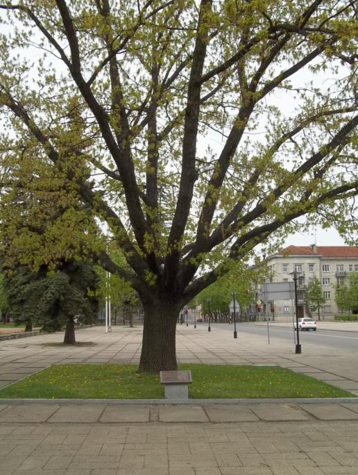 Tree planted by L. Jakavicius in pro of the freedom of expression.